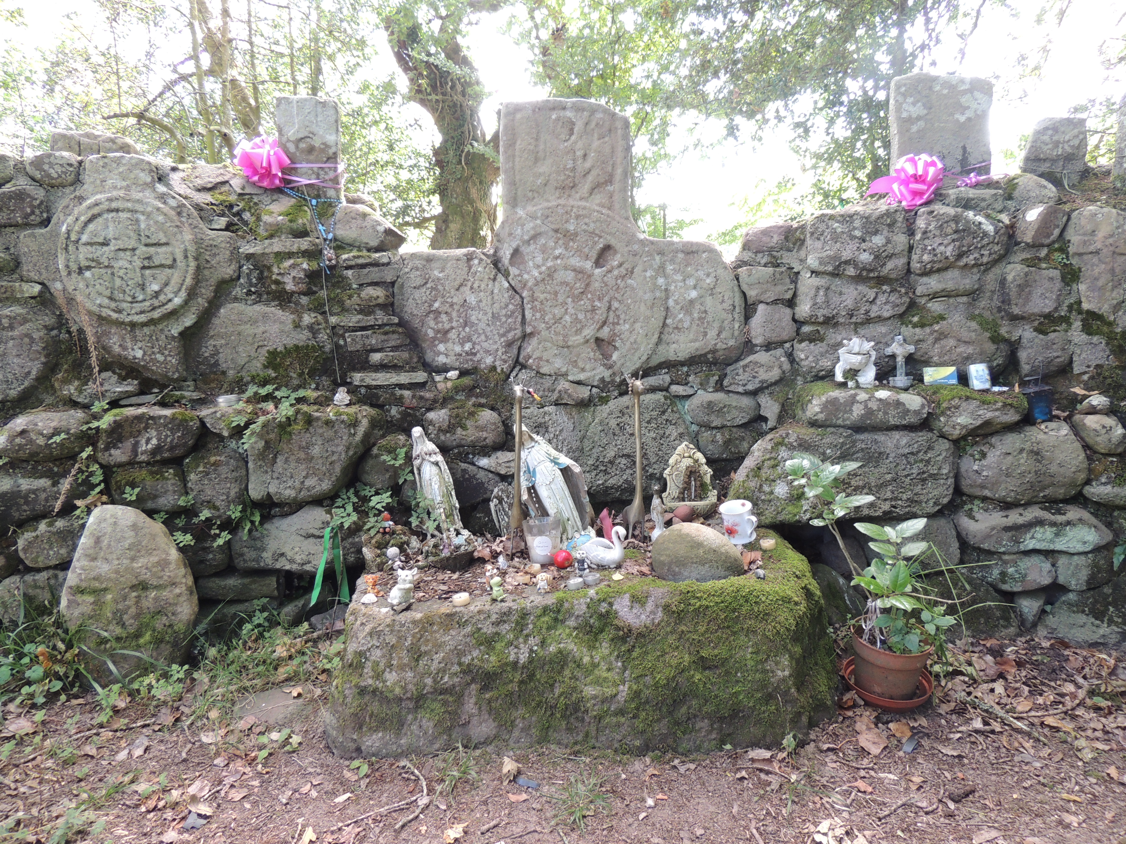 St Berriherts Kyle Crosses